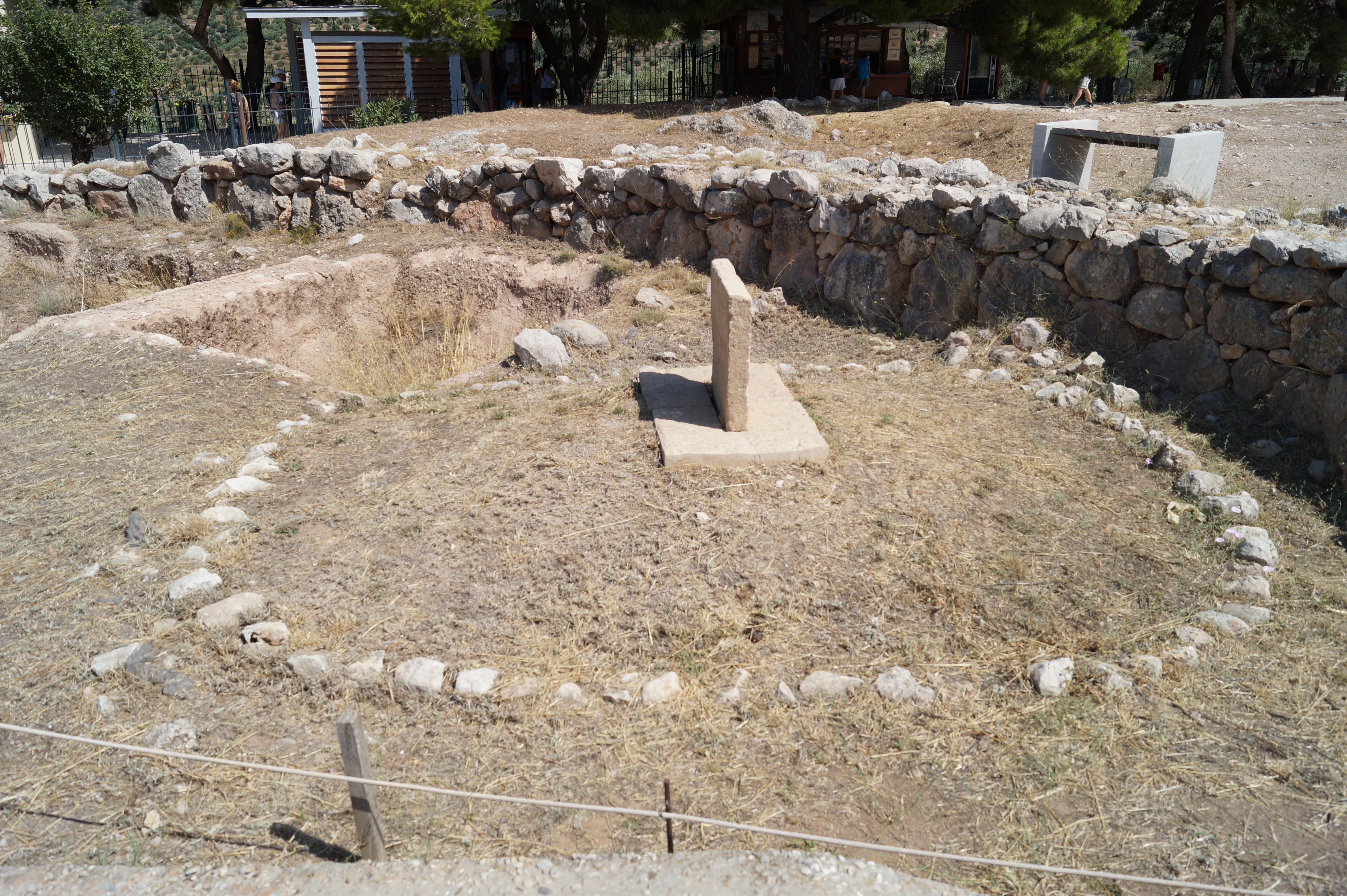 Mycenae, grave circle B: Reconstructed mound and stela on grave Α (Alpha). Behind there is grave Ι (Iota) and to the right the enclosing wall of grave circle B.